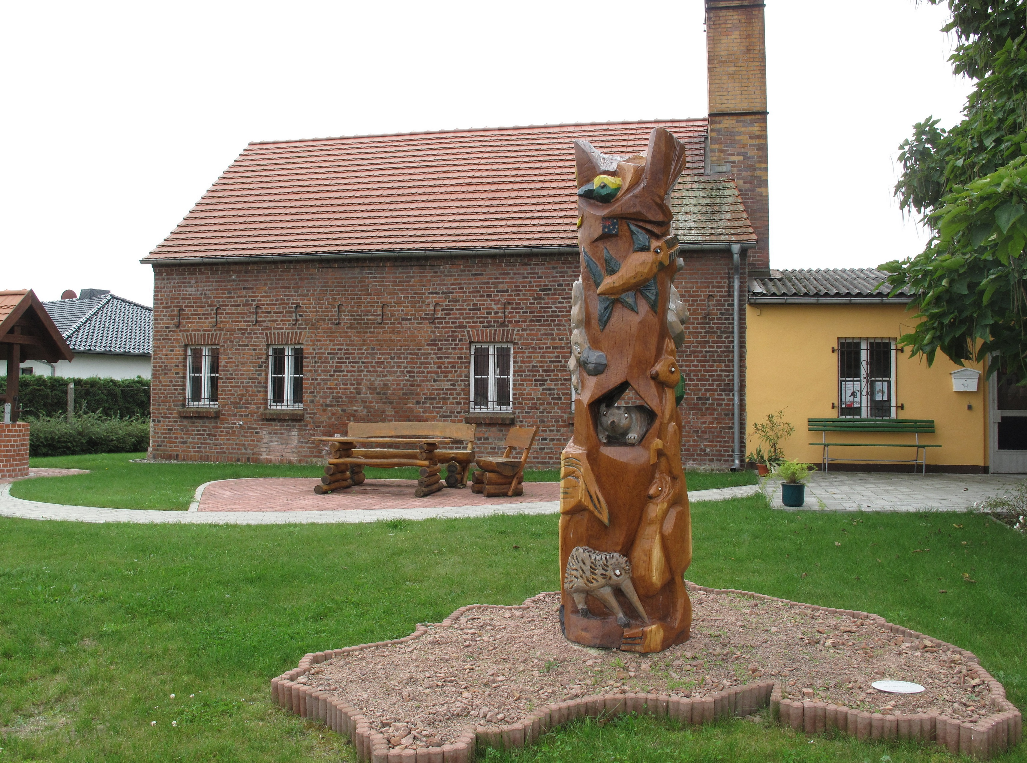 The Ludwig-Leichhardt-Museum is situated in Trebatsch, a part of the municipality Tauche in the District Oder-Spree, Brandenburg, Germany. The museum was opened in 1988 on the occasion of the 175th birthday of the Australia-explorer Ludwig Leichhardt, who was born in 1813 in the village Sabrodt, a settlement of Trebatsch today. The Museum recognizes Leichhardt with exhibits and events. The wood stake „Die Tierwelt Australiens“ (german for: The animal world Australia's) was created by the wood carver Steffen Böttger.